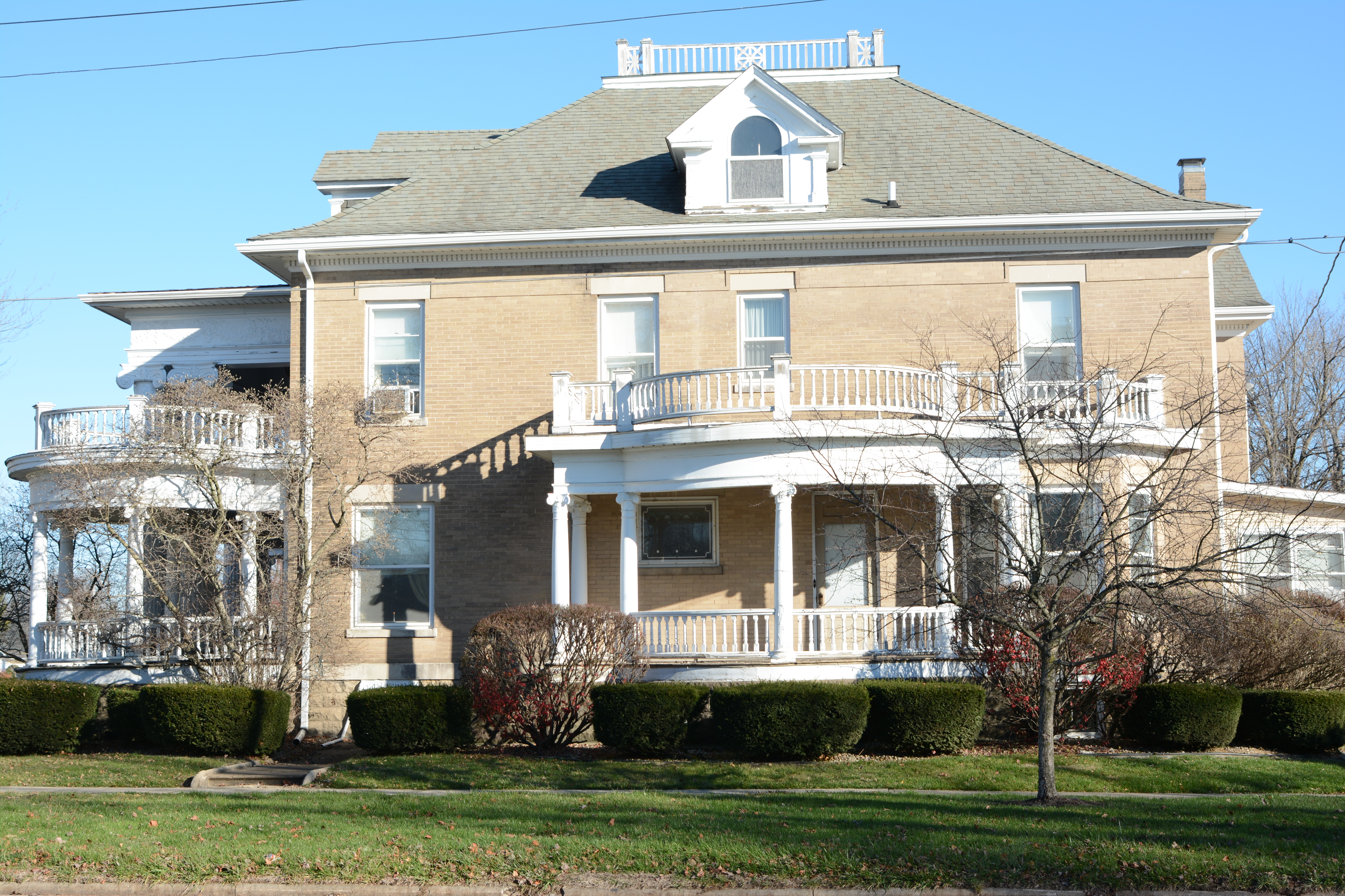 The John W. Lewis House in Marshall, Illinois, US